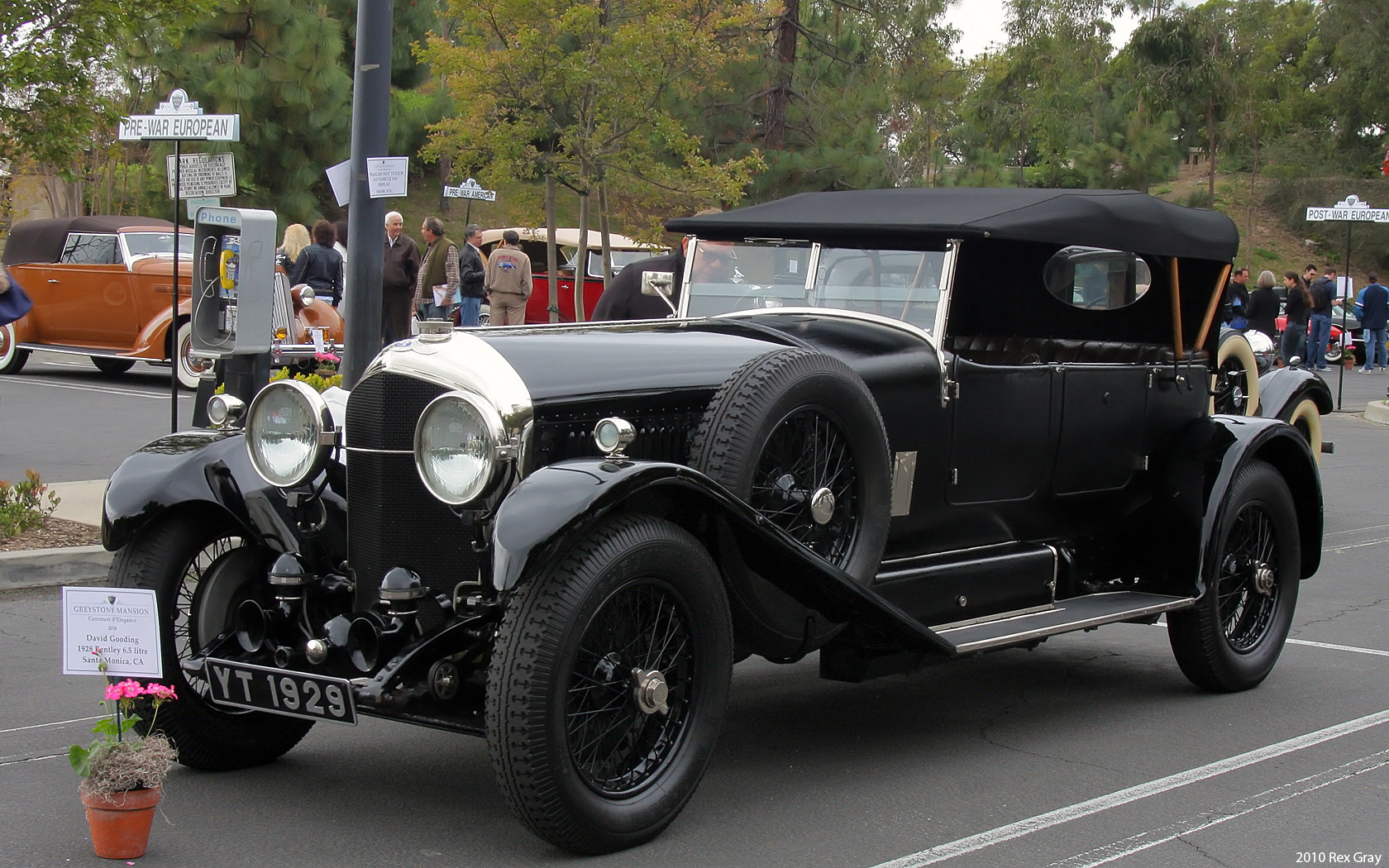 Bentley 6½-litre tourer by Vanden Plas 1927 Greystone Mansion Inaugural Concours d'Elegance, April 11, 2010 Original coachwork 4-seater by Vanden Plas Chassis KD2111 12 ft wheelbase Engine KD2115 Reg YT 1929 delivered July 1927 source of info